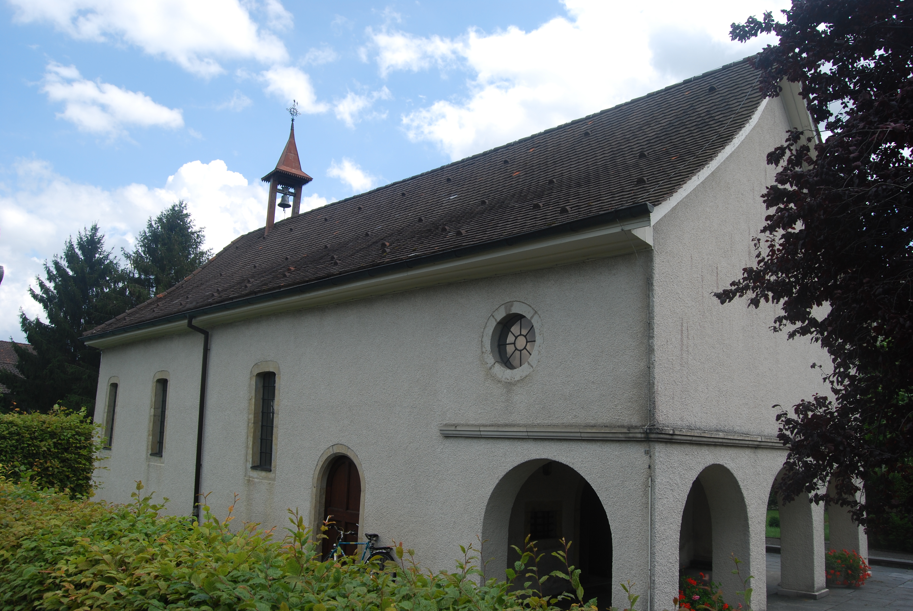 Chapell St. Hubert at Bassecourt, canton of Jura, SwitzerlandEsperanto: Kapelo Sankta Huberto en Bassecourt, Kantono Ĵuraso, Svislando